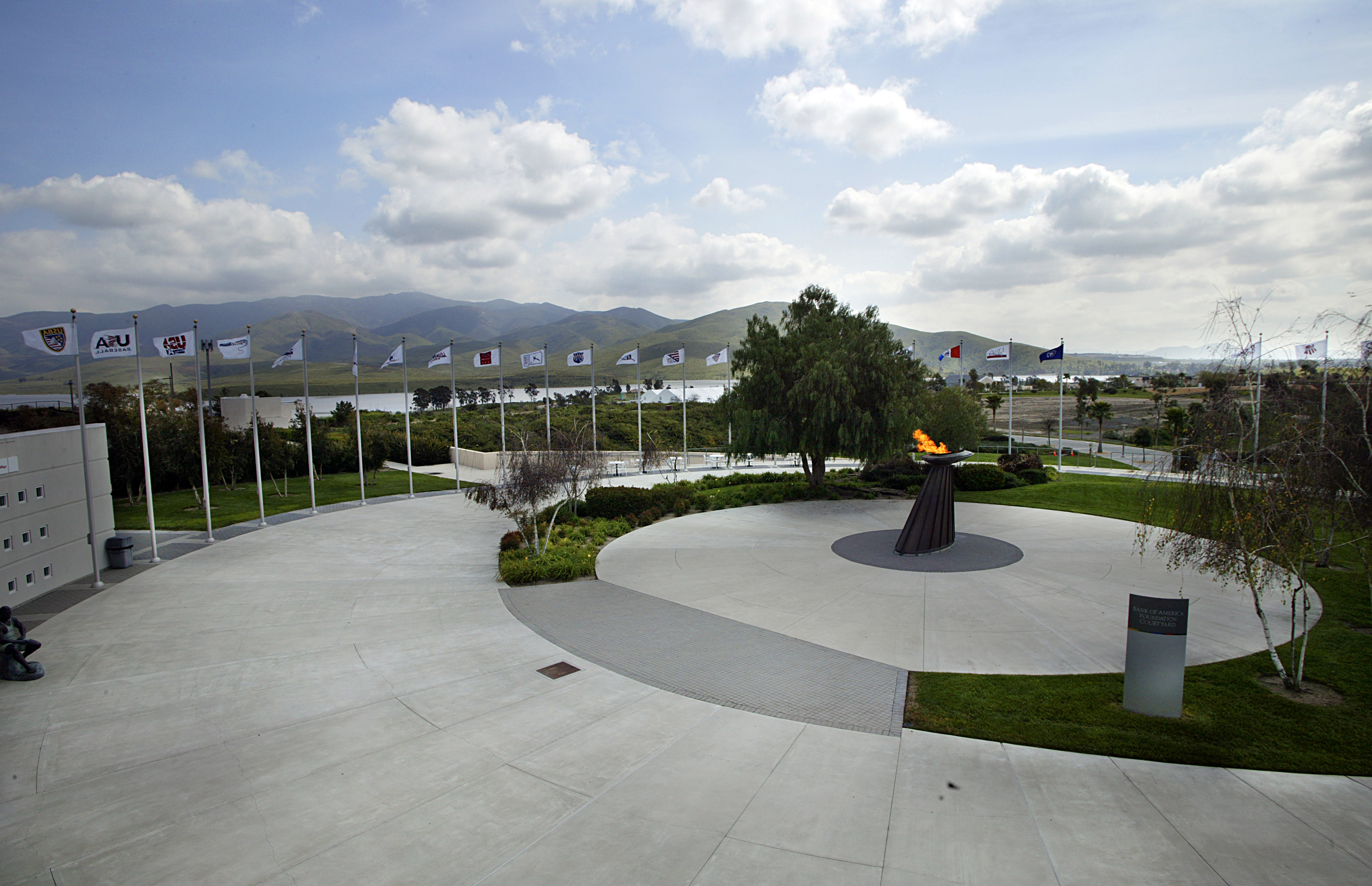 United States Olympic Training Center, Chula Vista, California, USA